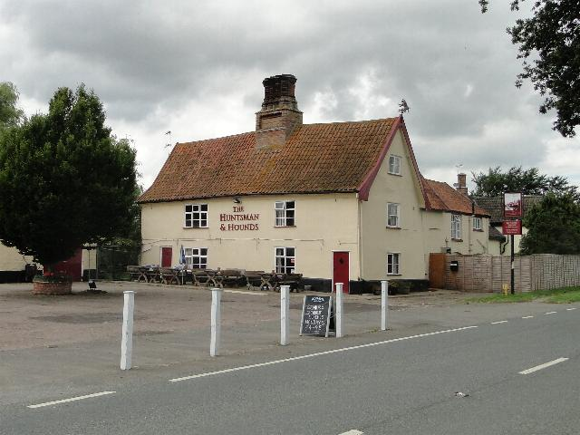 The Huntsman and Hounds, Spexhall, Suffolk